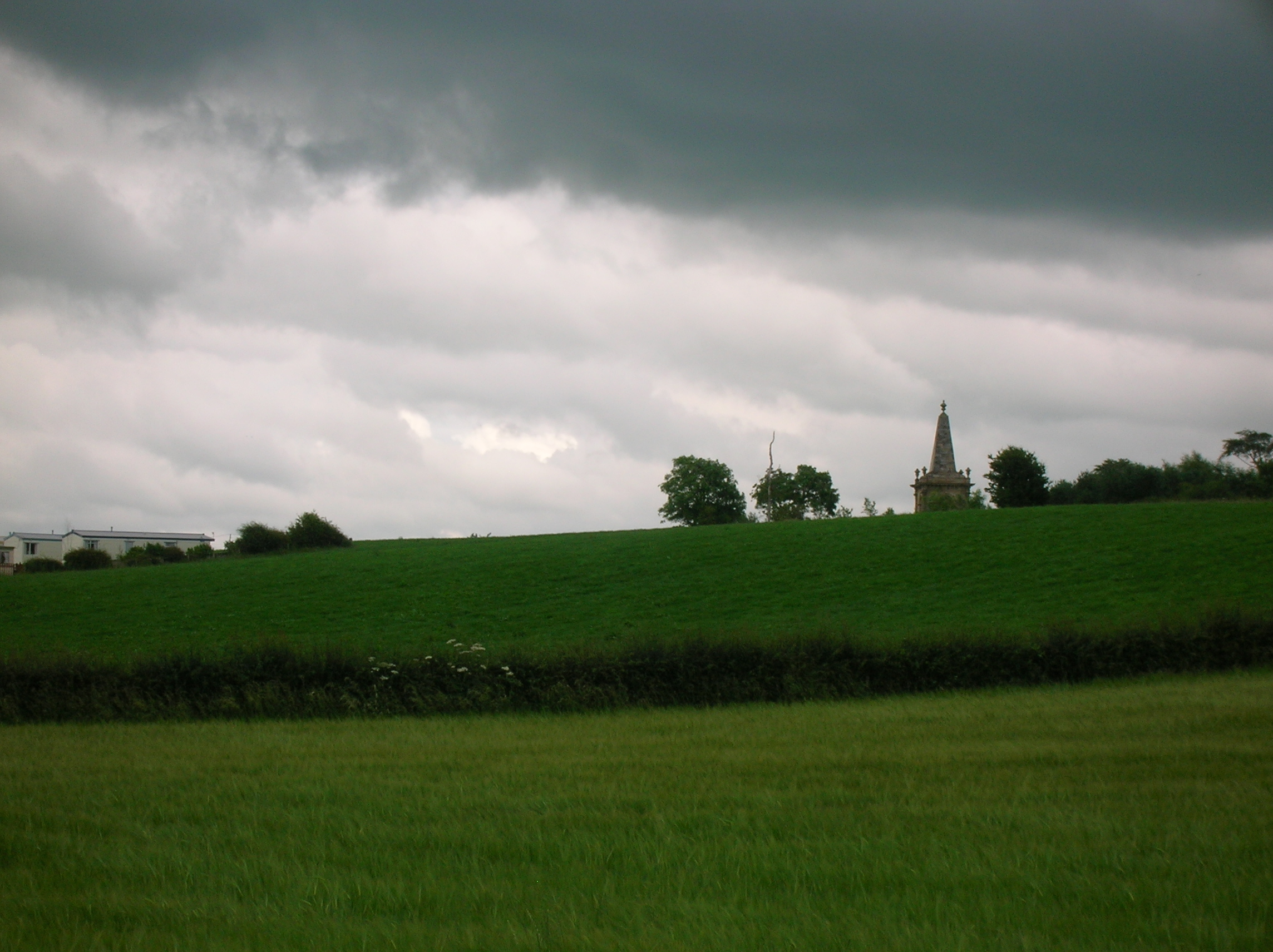 MacRae of Orangefield memorial, Governor of Madras, Monkton, South Ayrshire, Scotland.